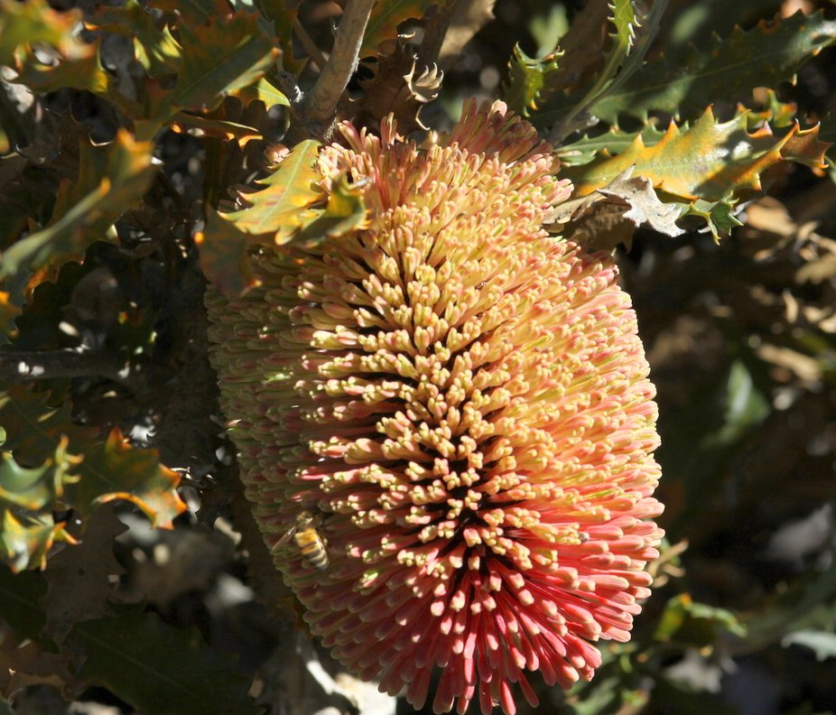 Banksia caleyi at Chingarrup, near Boxwood Hill